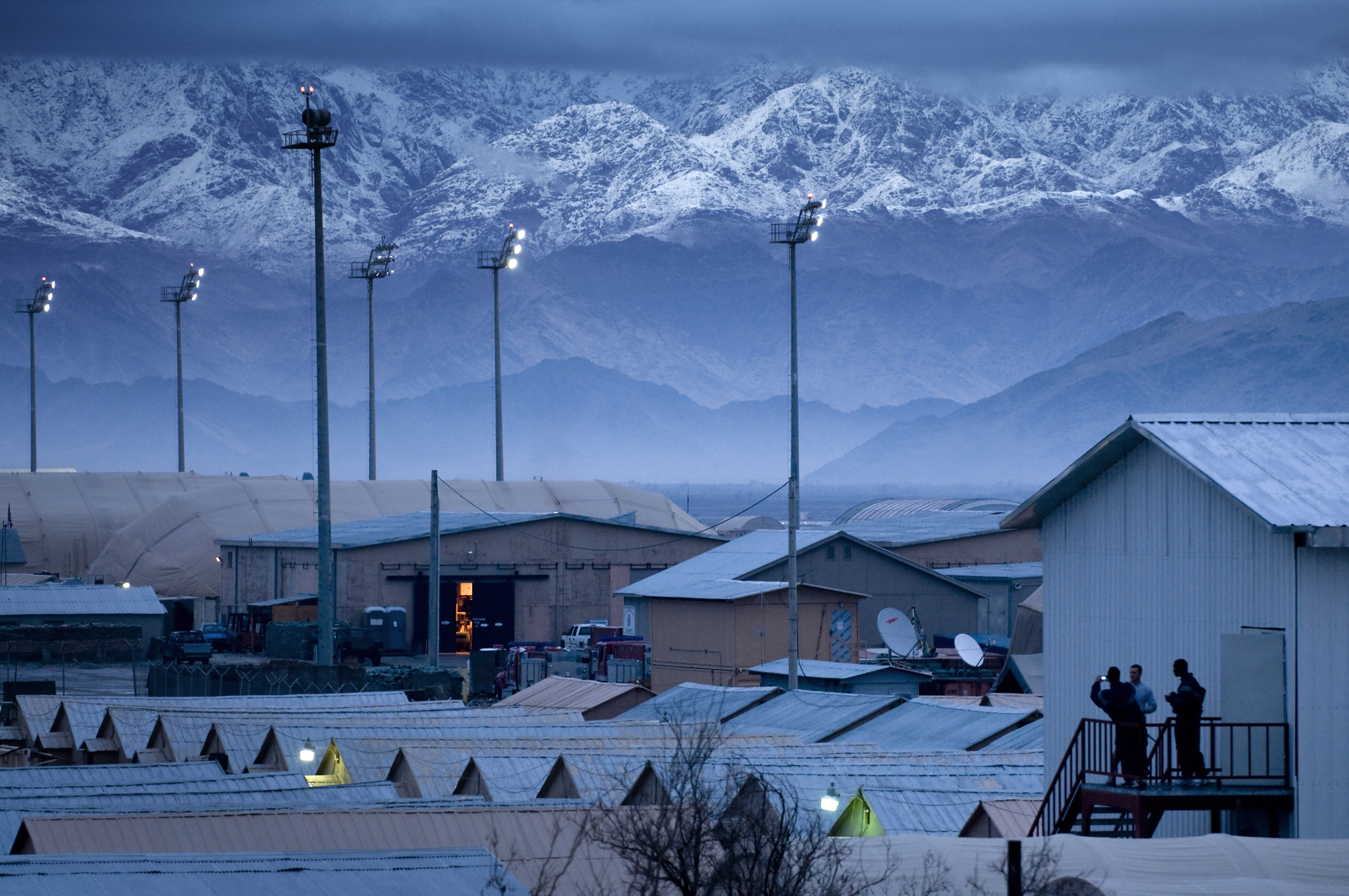 Scenic photo op; Airmen take a photo opportunity of the surrounding mountains from a staircase at Bagram Air Field, Afghanistan, Dec. 18. With fall drawing to a close, the mountains that were barren during the summer receive a coating of fresh snow.